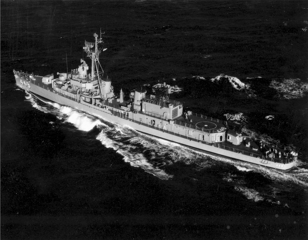 The U.S. Navy Fletcher-class destroyer USS Nicholas (DD-449) underway off Hawaii (USA). Note her 1960 FRAM II modernizations, new smokestack caps and the DASH drone helicopter hangar and flight deck.